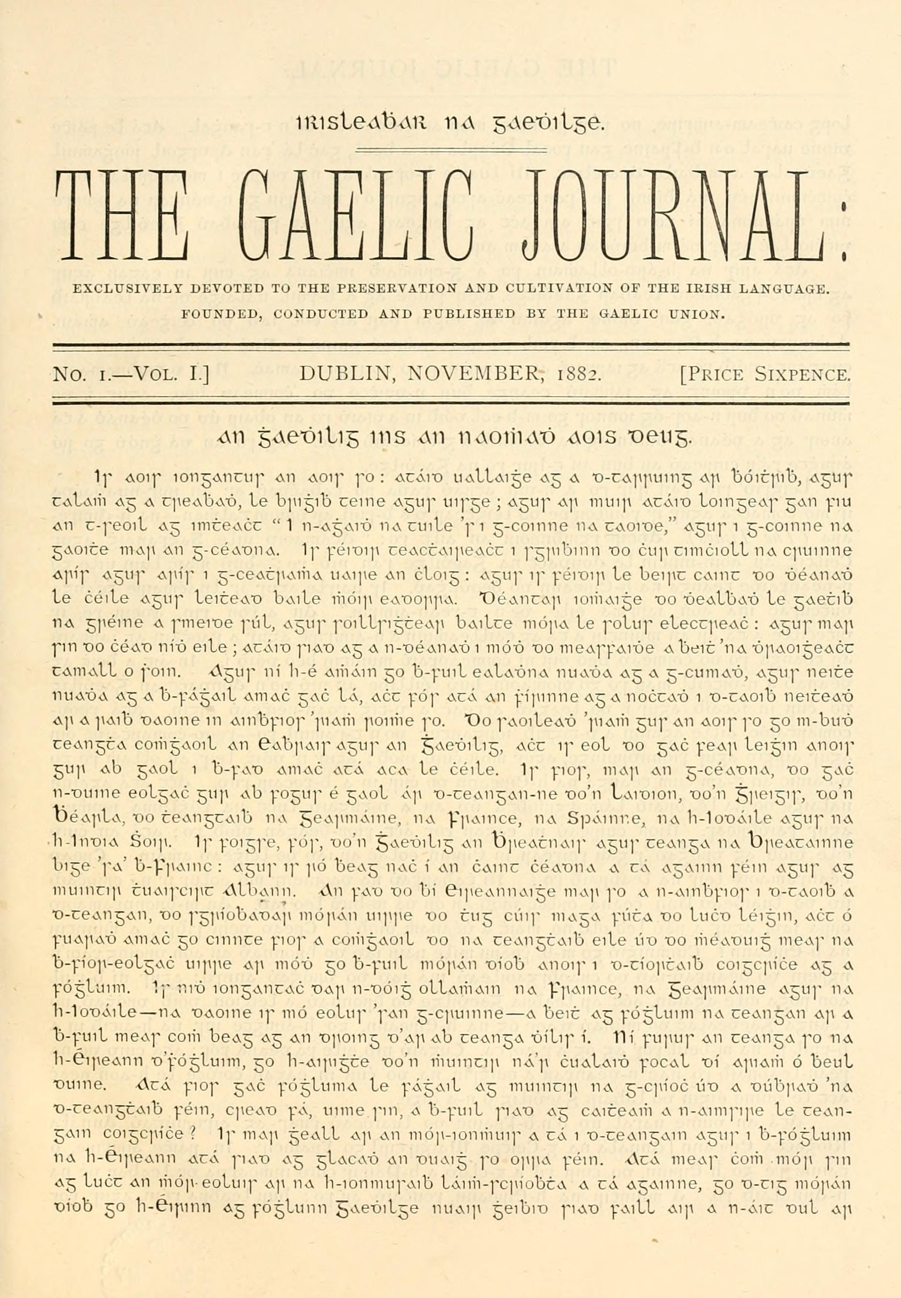 Front cover of first issue of Gaelic Journal